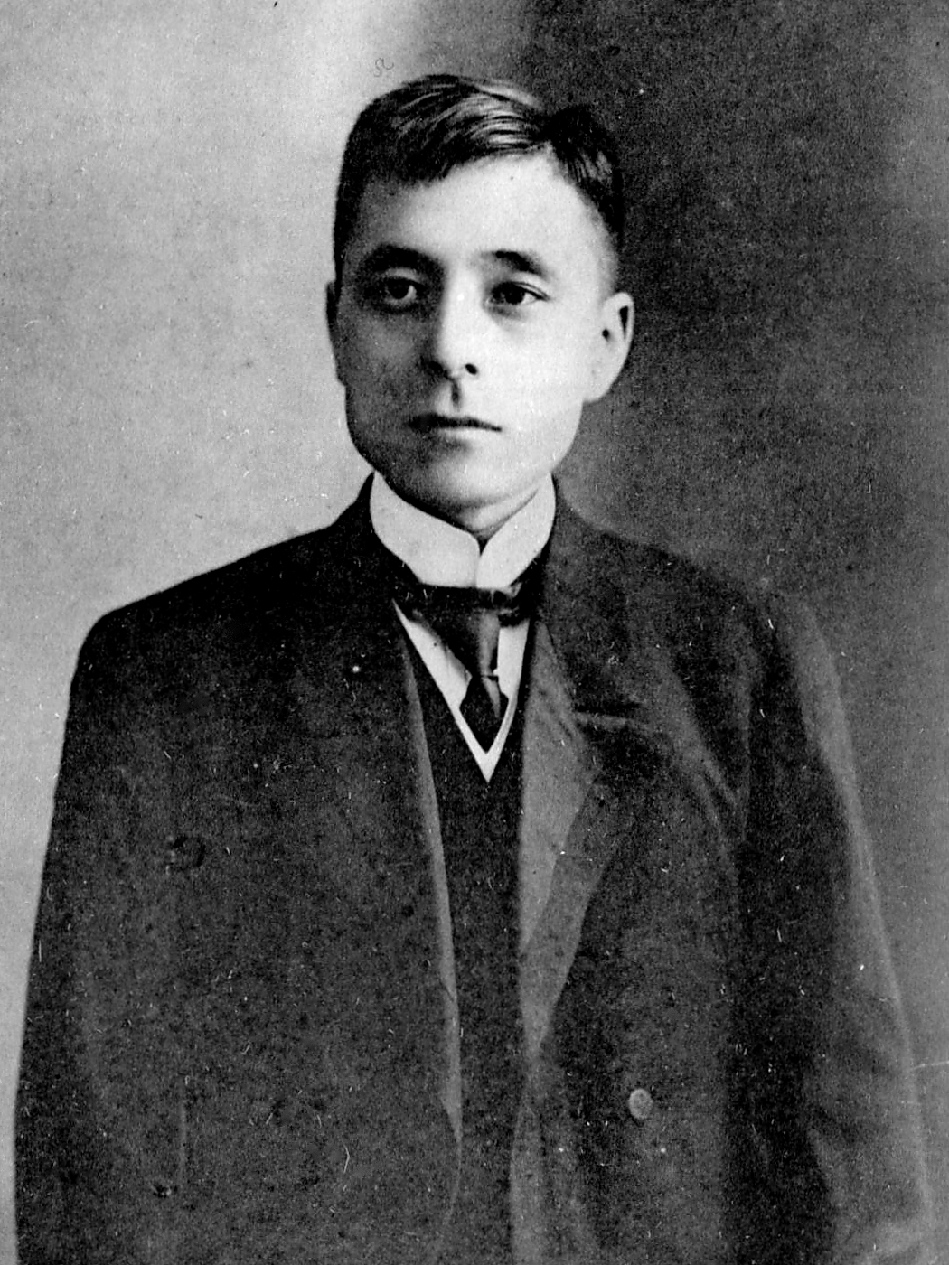 Momosuke Fukuzawa (around 45-year-old).